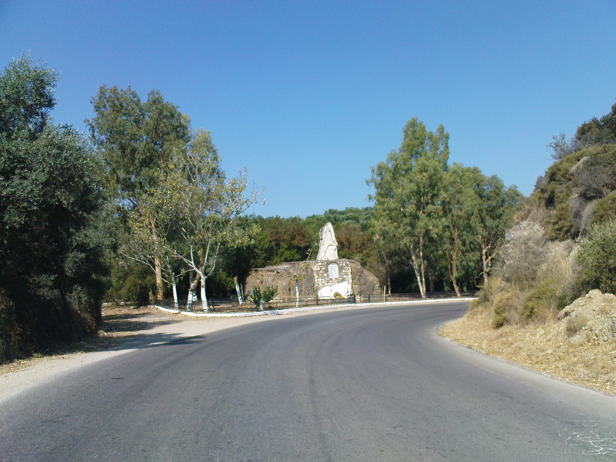 Battle of Agorelitsa spot